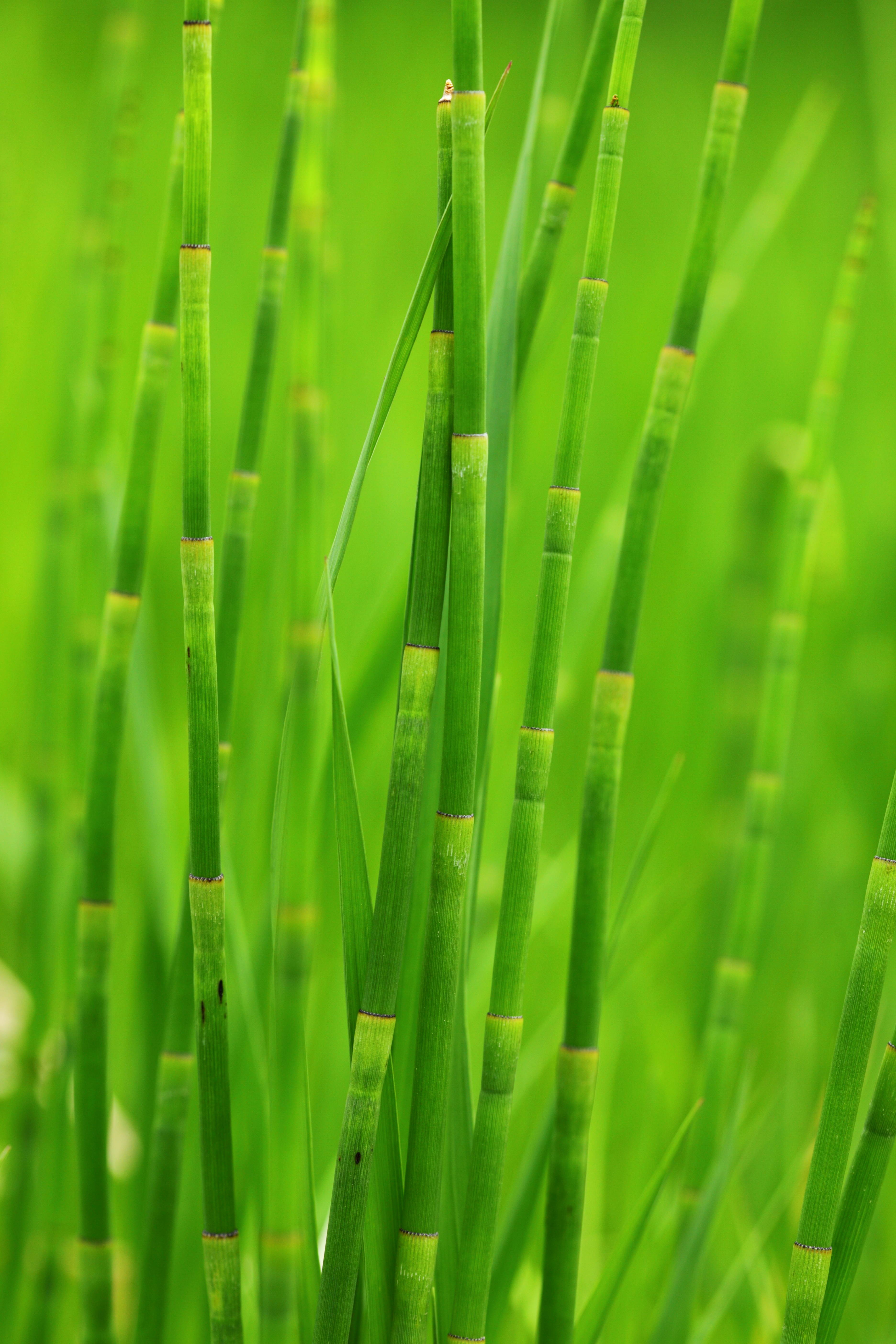 My photos that have a creative commons license and are free for everyone to download, edit, alter and use as long as you give me, "D Sharon Pruitt" credit as the original owner of the photo. Have fun and enjoy!